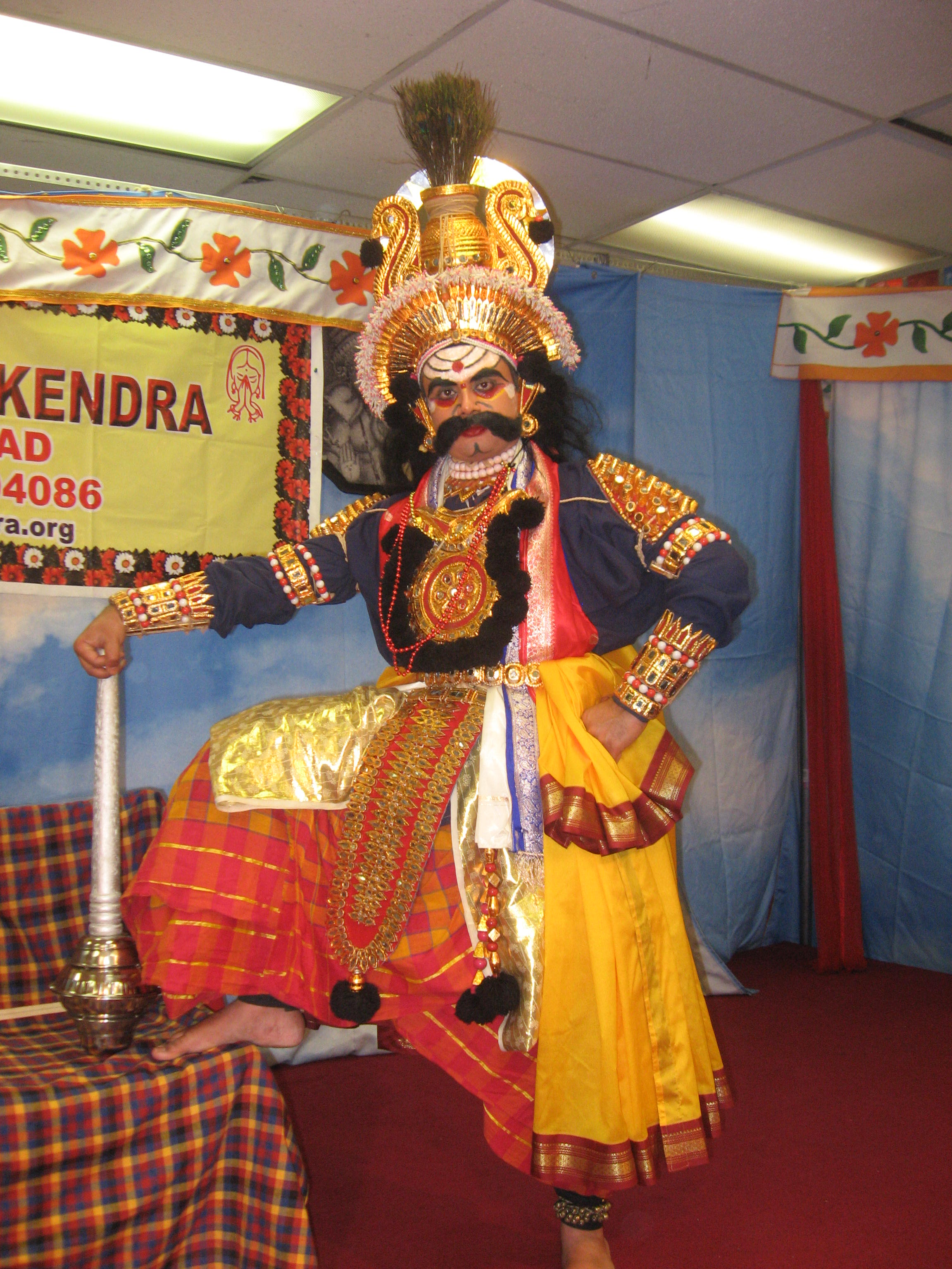 yakshagana Vesha Badagu tittu